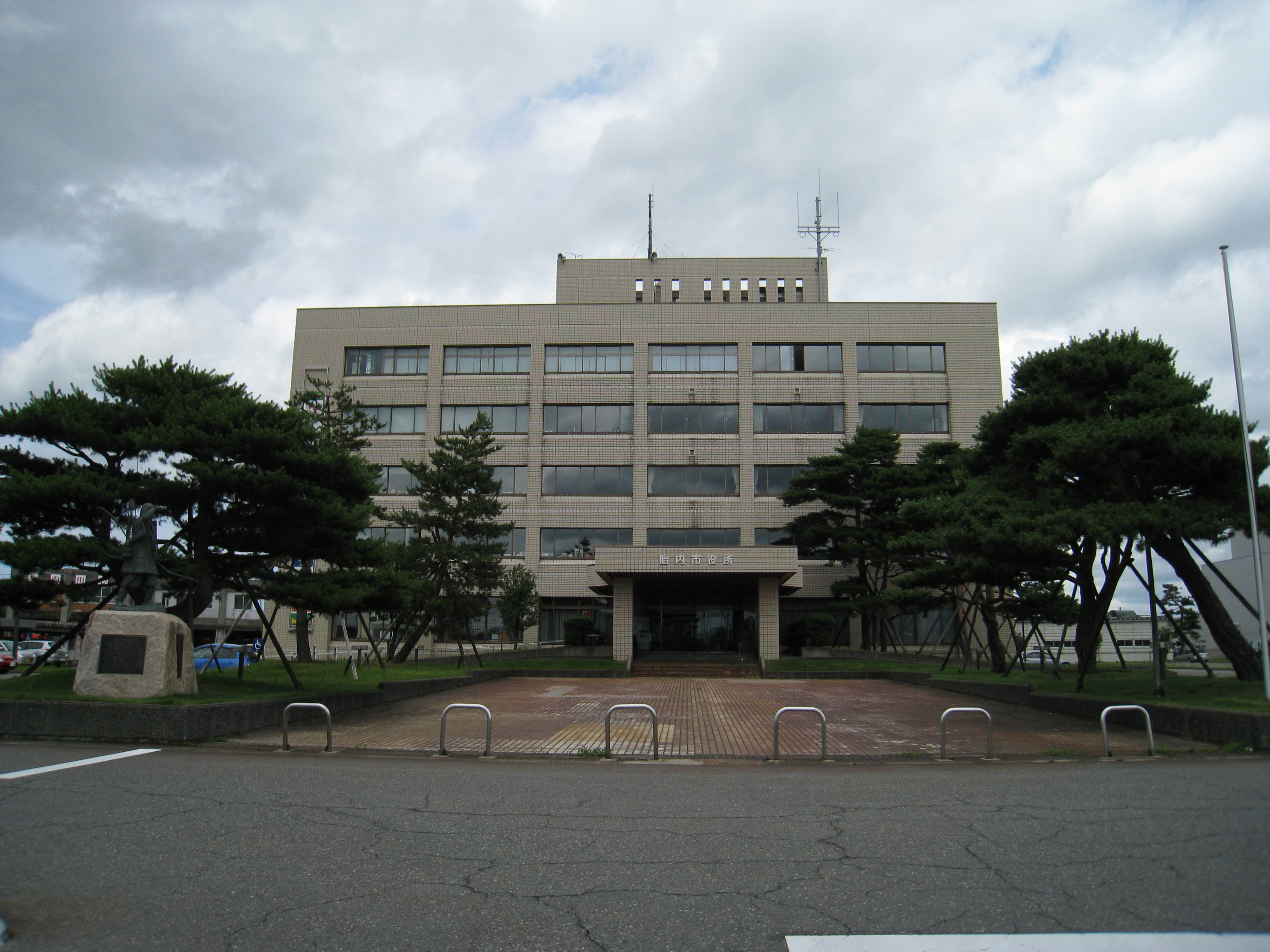 Tainai_cityhall, Niigata-pref, Japan